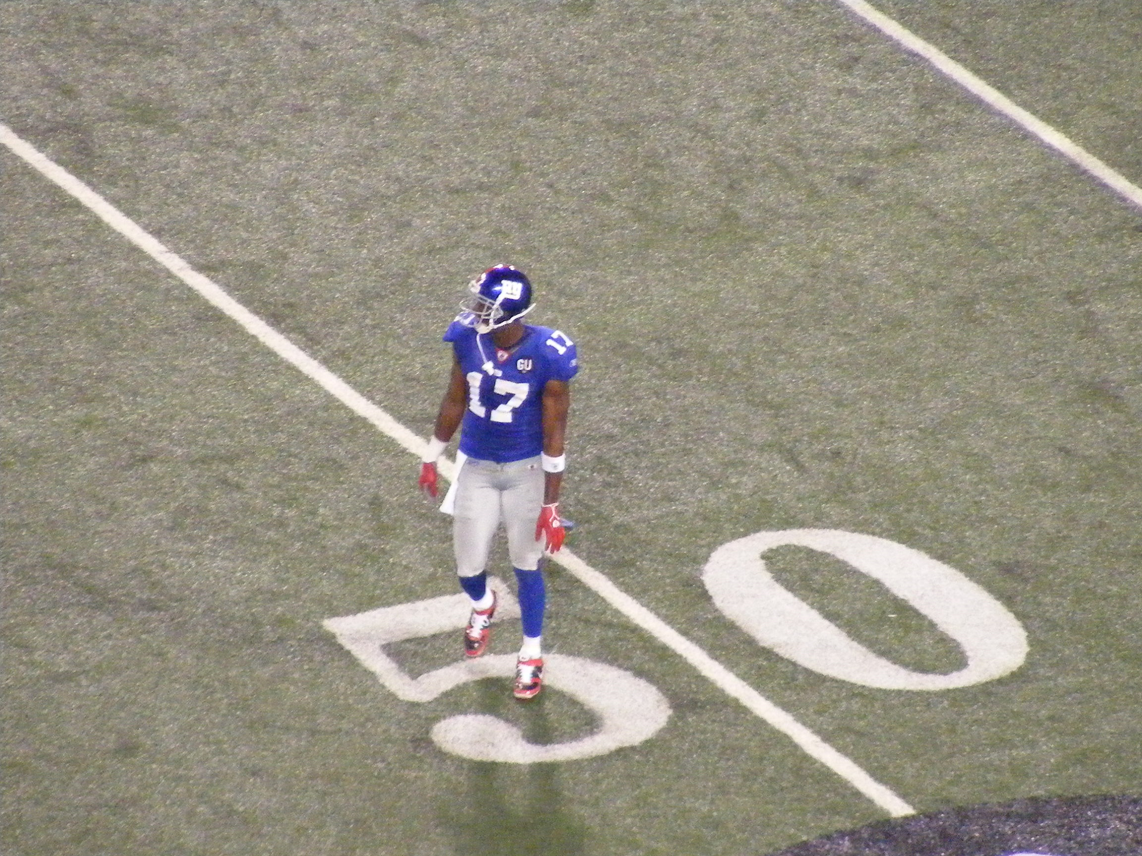 Plaxico Burress in 2008.